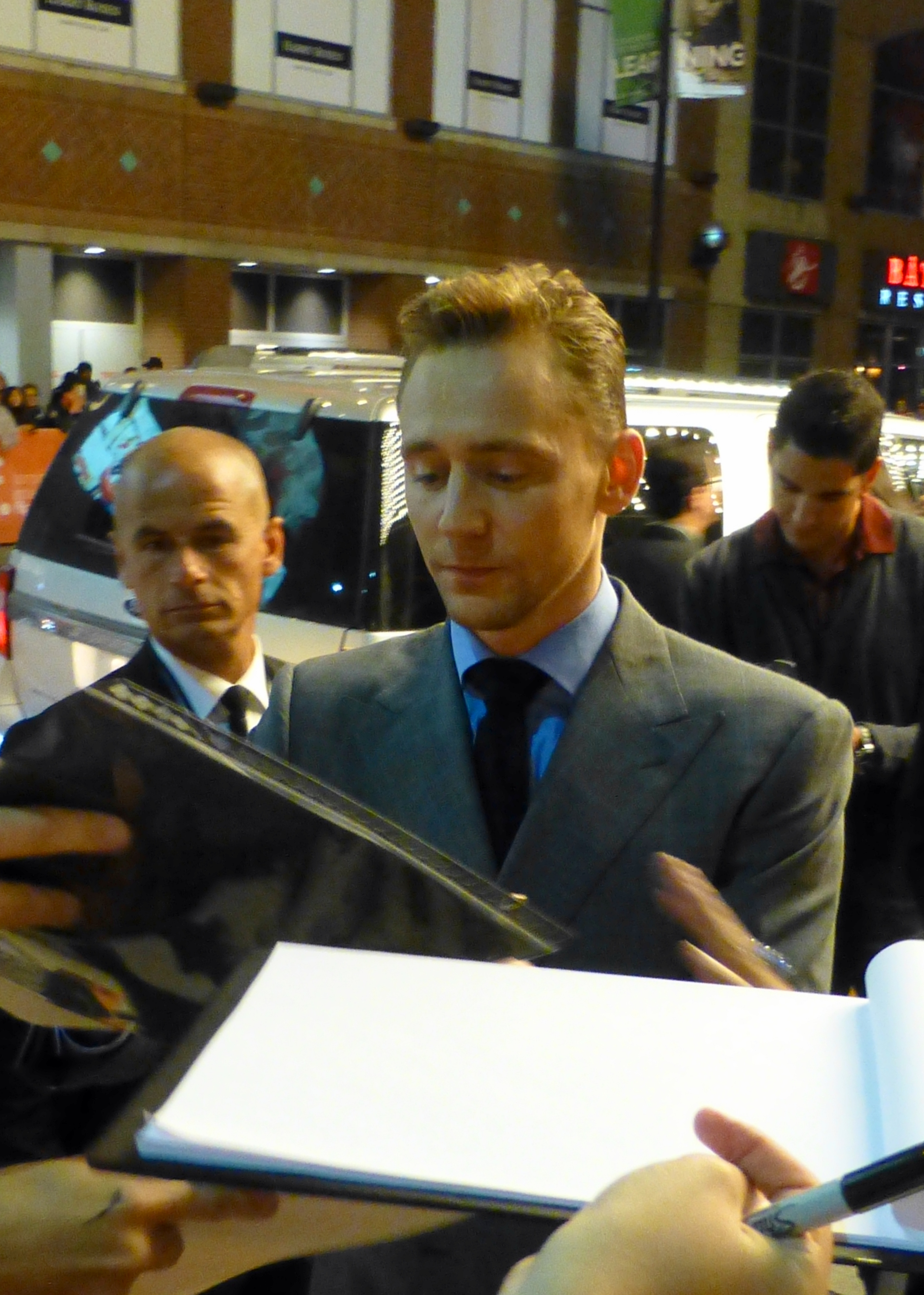 Tom Hiddleston at the premiere of High Rise, 2015 Toronto Film Festival